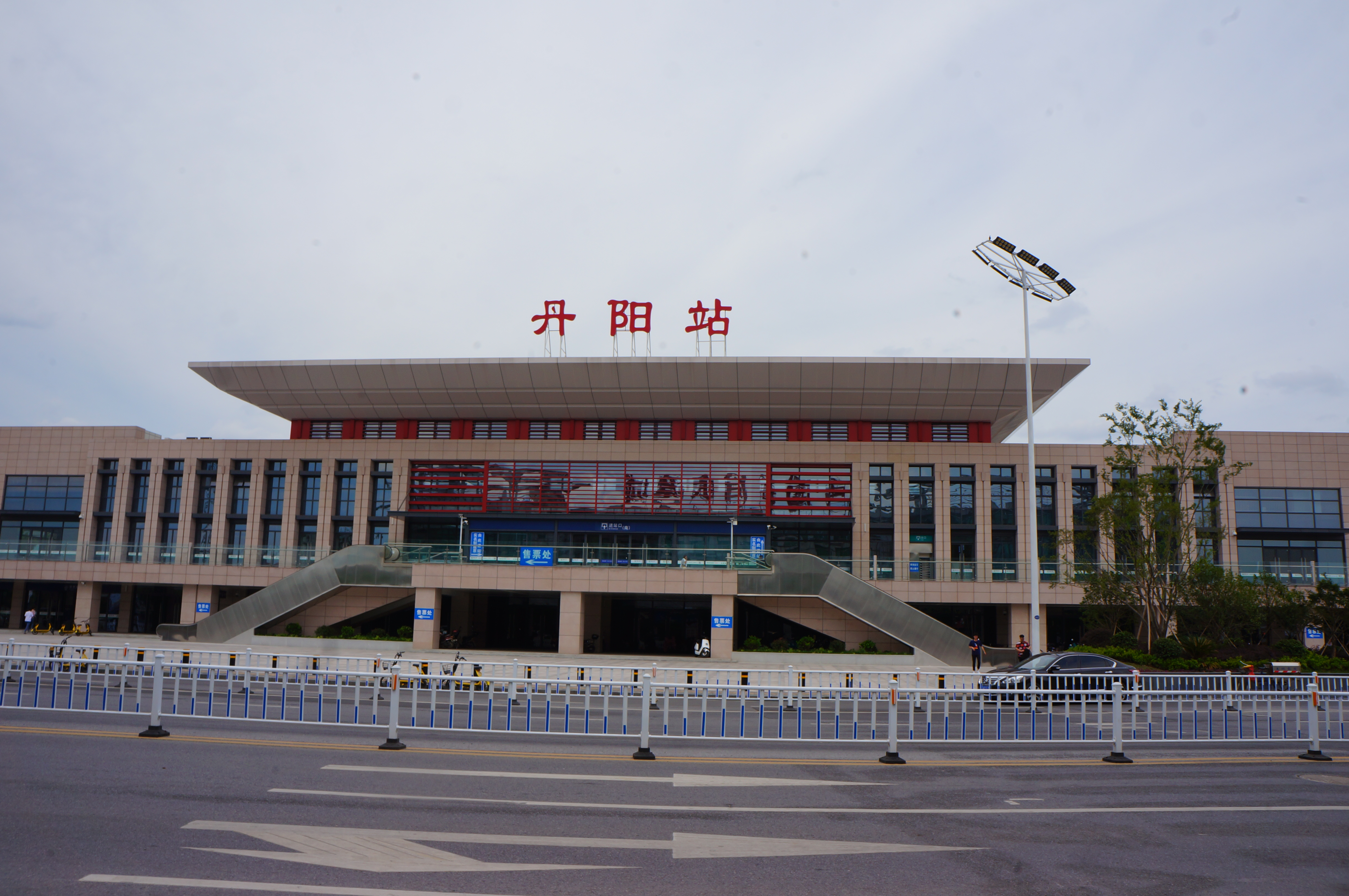 201806 Danyang Station South Building